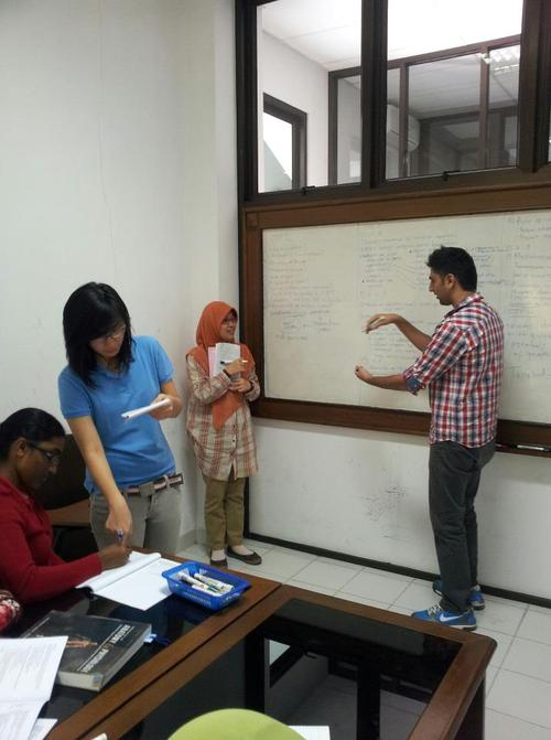 PBL group at Gadjah Mada University engaged in group-learning with students teaching other students.